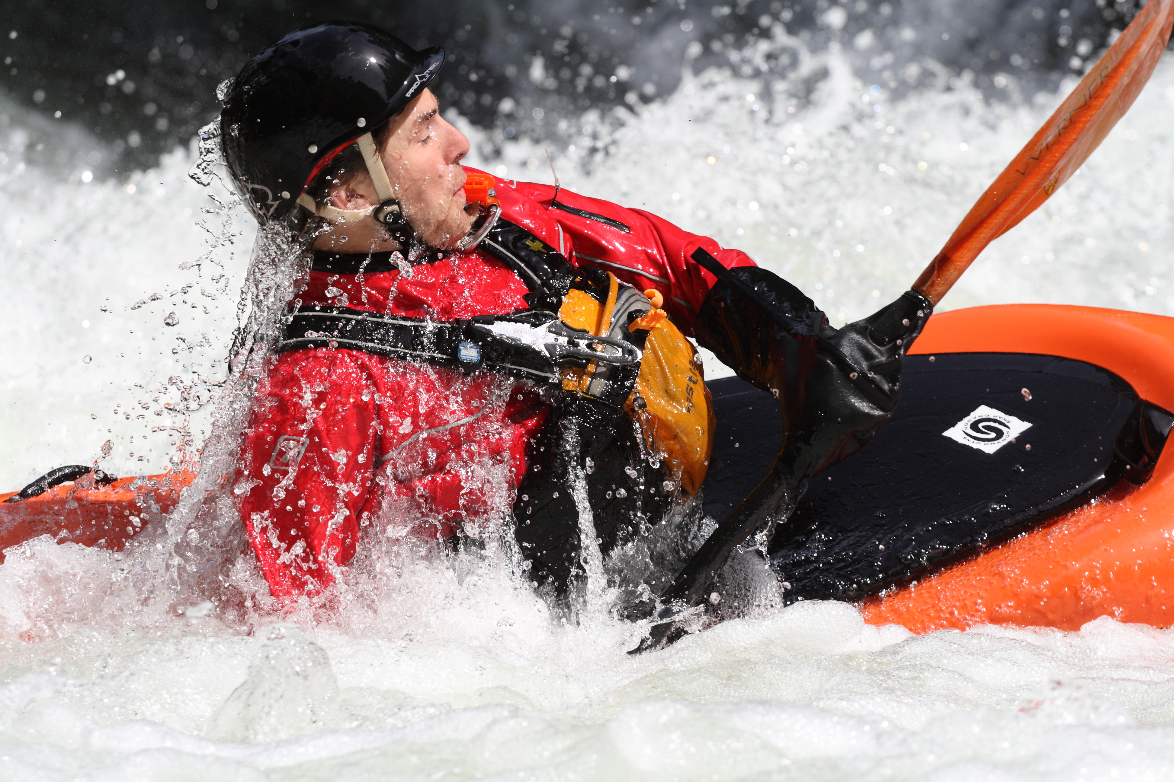 A whitewater kayaker surfaces after performing an eskimo roll on the Middle White Salmon river.